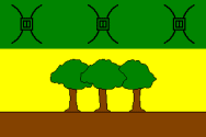 Flag of Għasri, Malta